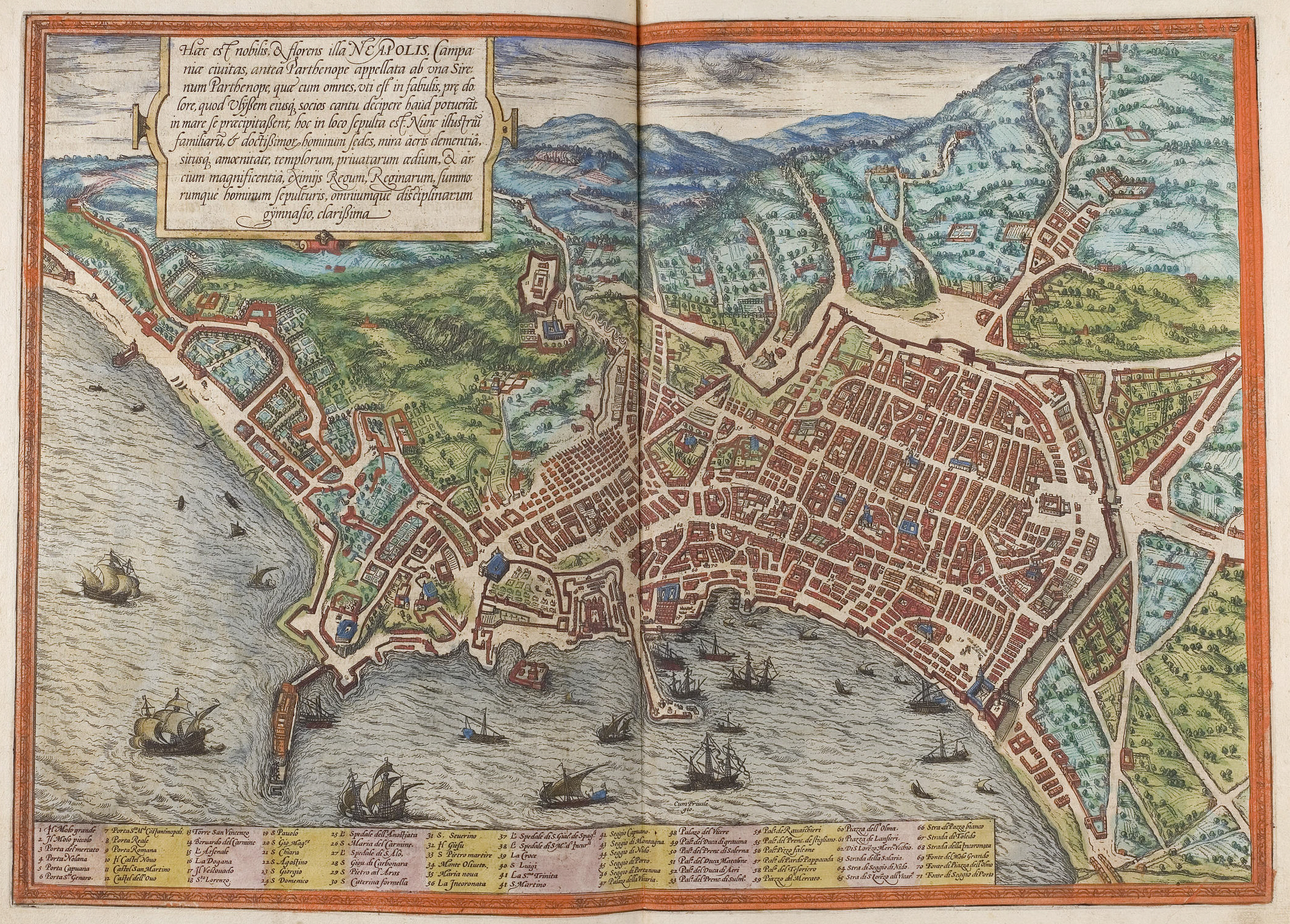 Map of Napoli, 1572